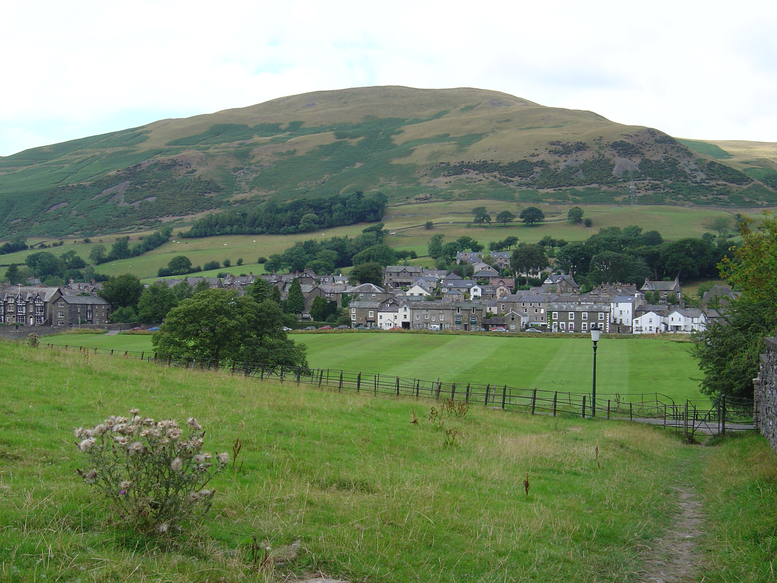 Sedbergh in the West Riding of Yorkshire